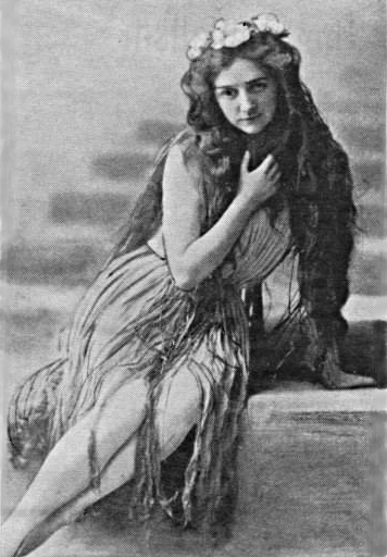 Ellen Price as the Little Mermaid, Royal Danish Ballet, 1909.